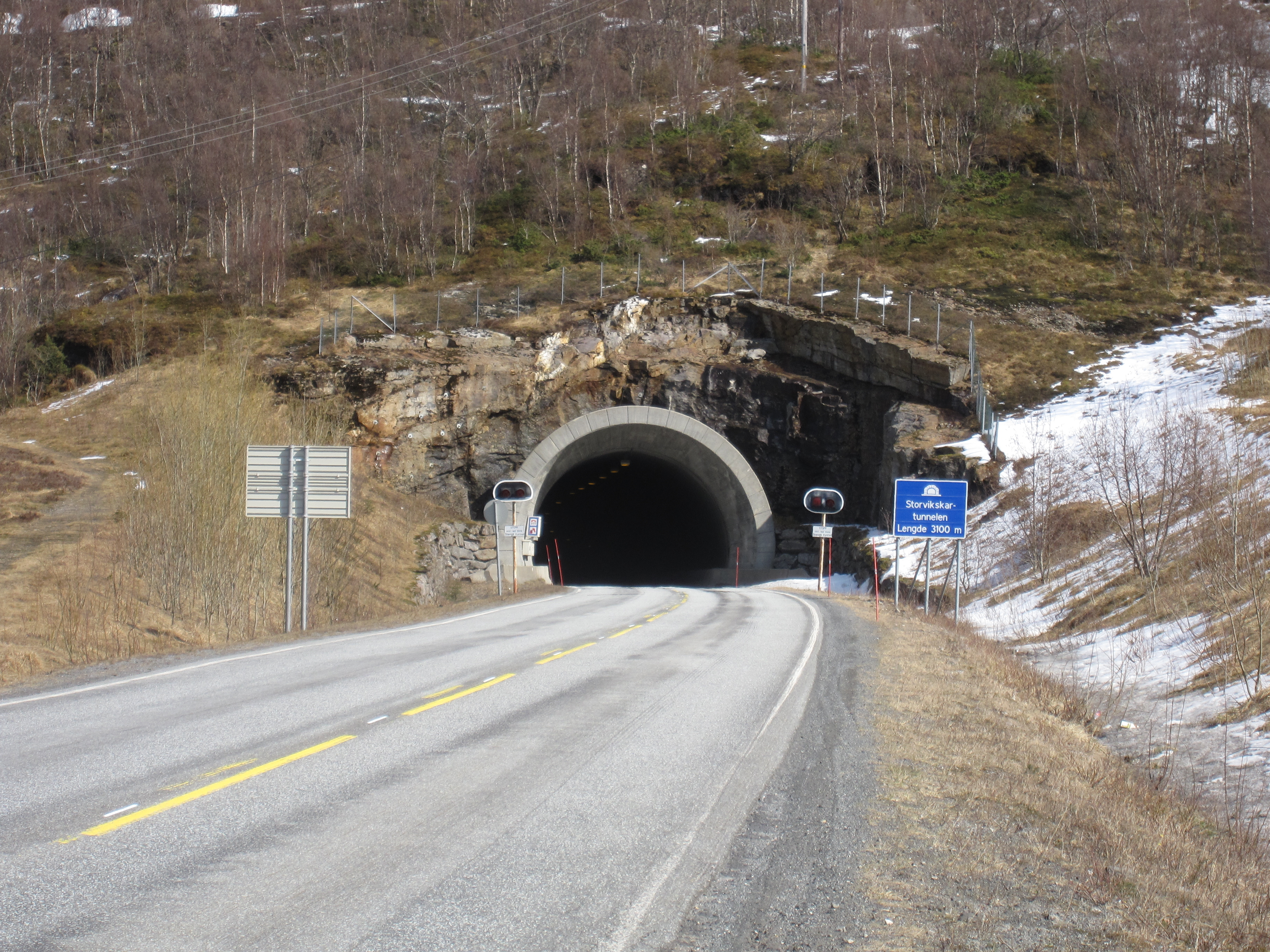 Entrance to Storviksskaret road tunnel seen from Storvik.